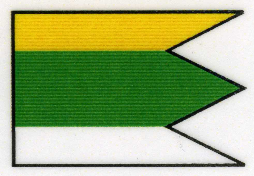 Flag of Spišský Hrušov